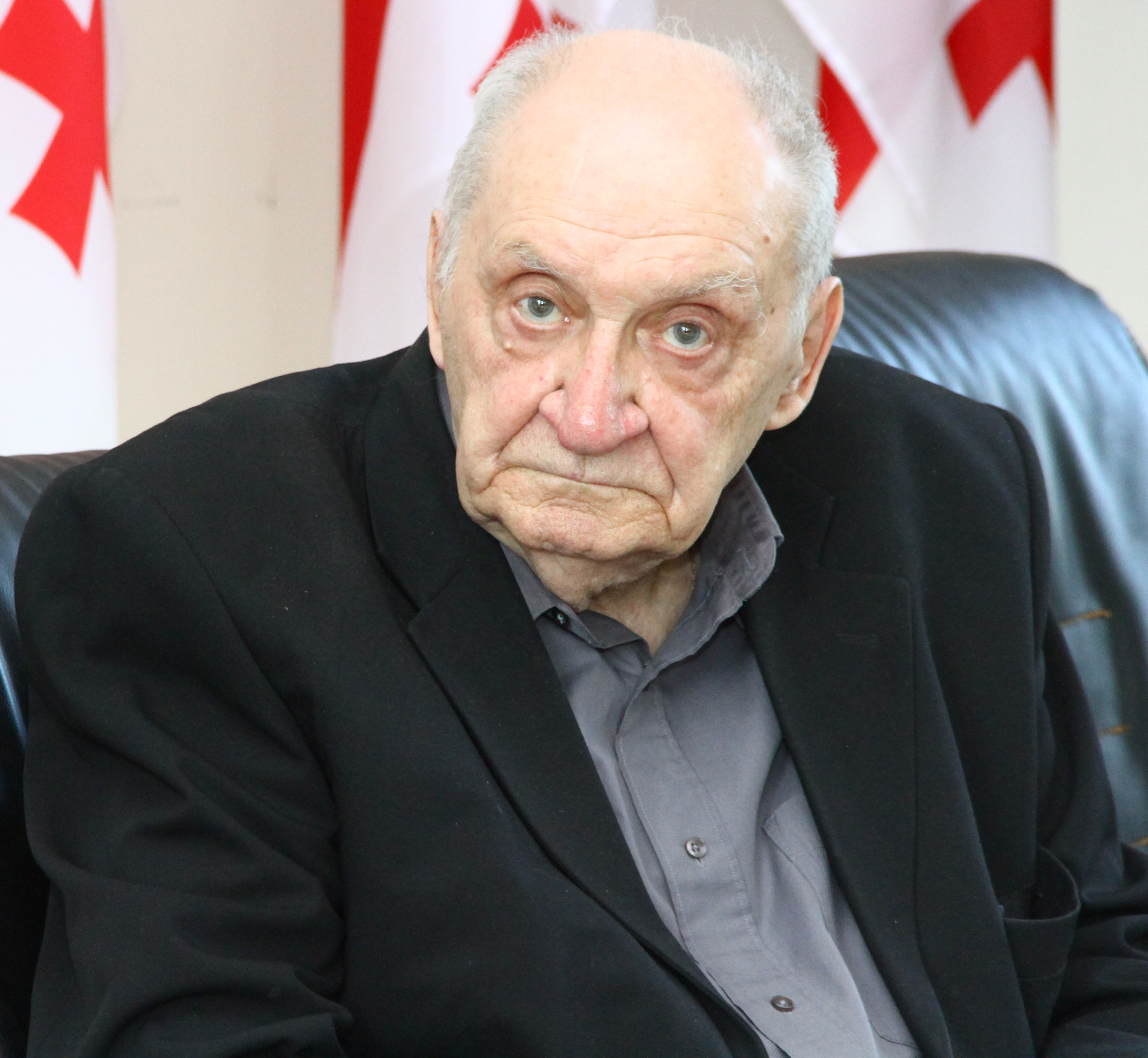 Guram Dochanashvili is a Georgian prose writer, a historian by profession, who has been popular for his short stories since the 1970s.